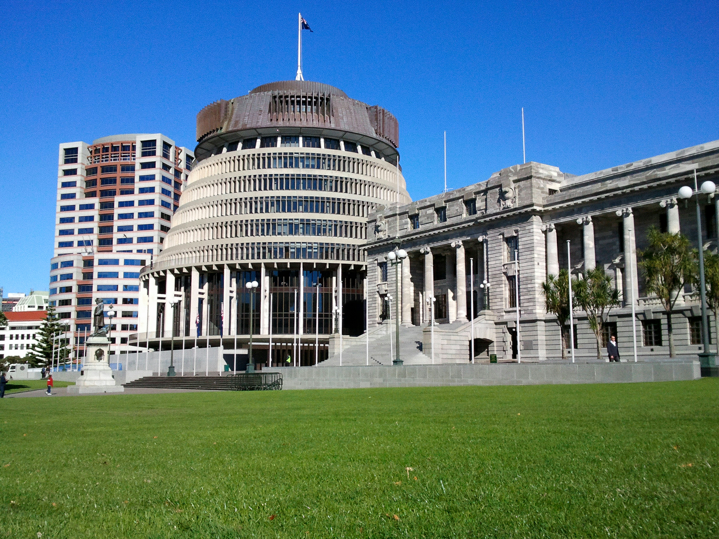 Parliament Building, the Beehive, and Bowen House (from right).